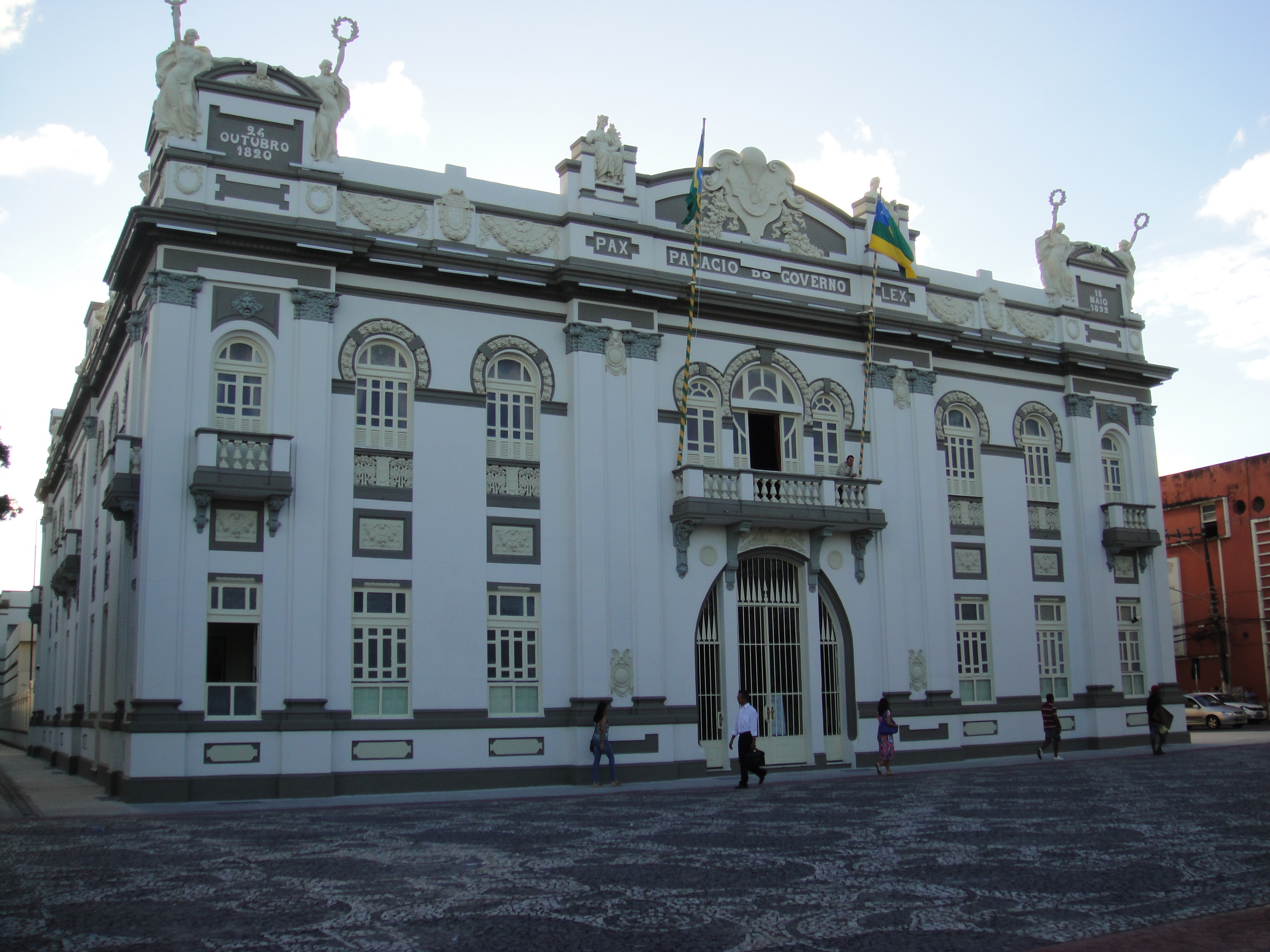 Palace Olimpio Campos. The former seat of the State Government of Sergipe. Fausto Cardoso's square. Aracaju, Sergipe, Brazil.